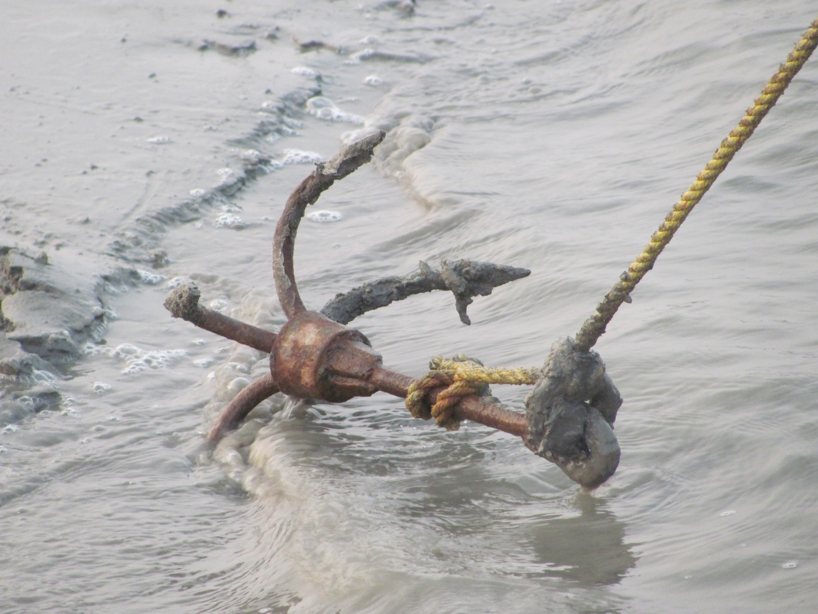 ranjan